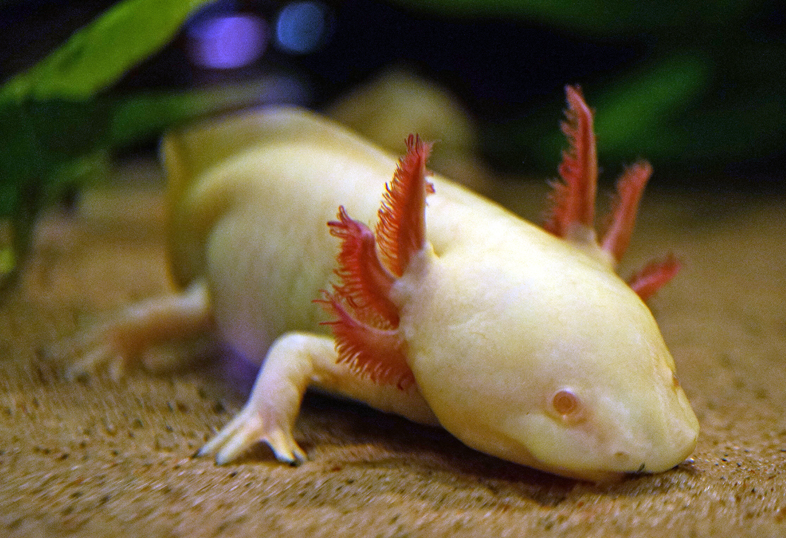 Axolotl in Särkänniemi Aquarium.